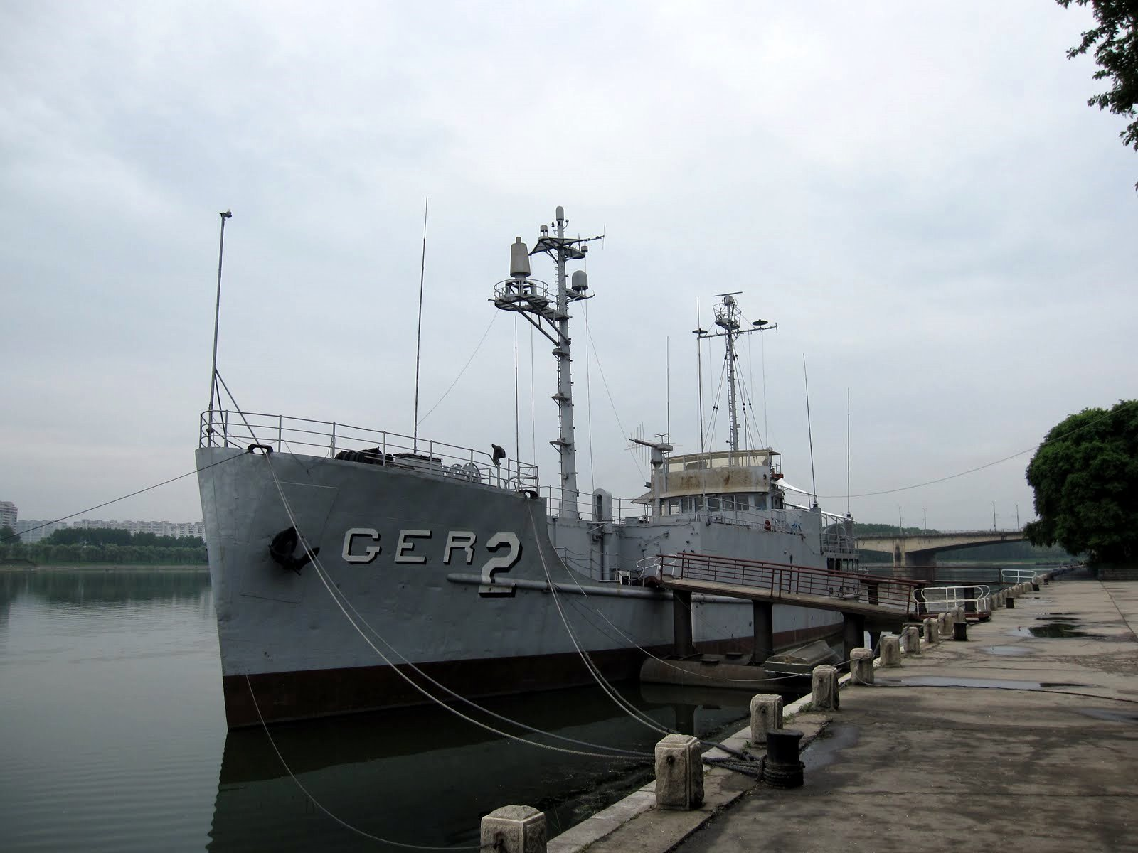 USS Pueblo, captured off North Korea's east coast in 1968